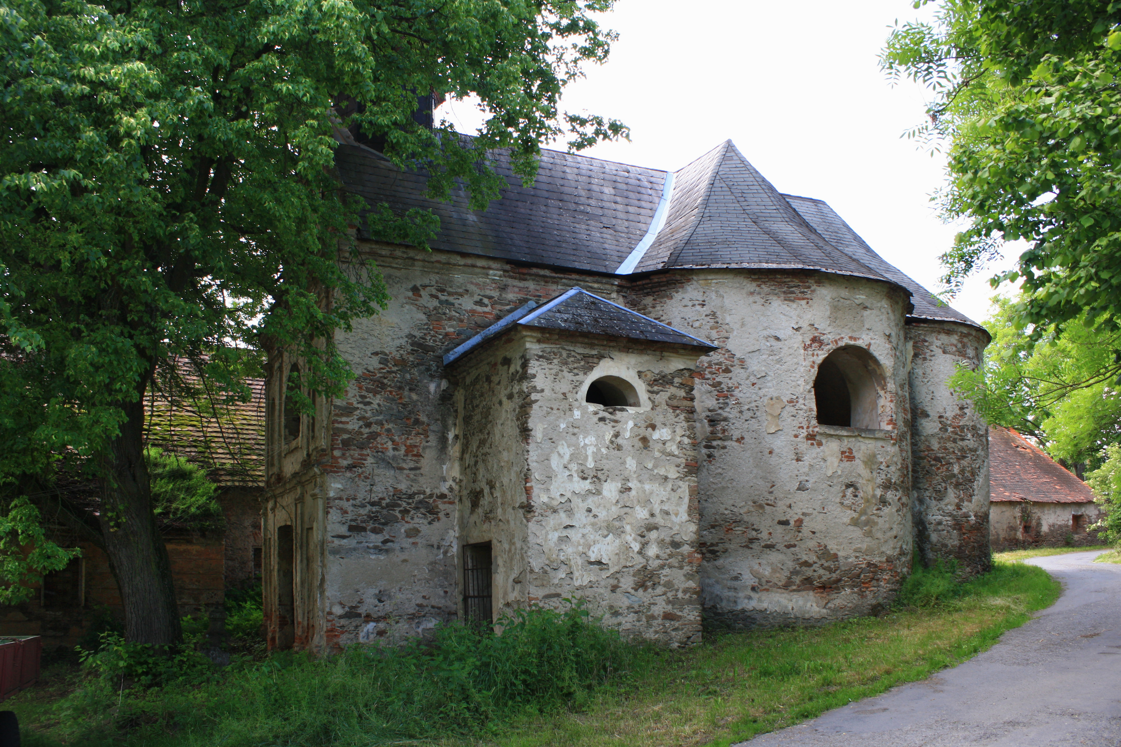 Holy Trinity Chapel in Nový Čestín, part of Mochtín, Czech Republic